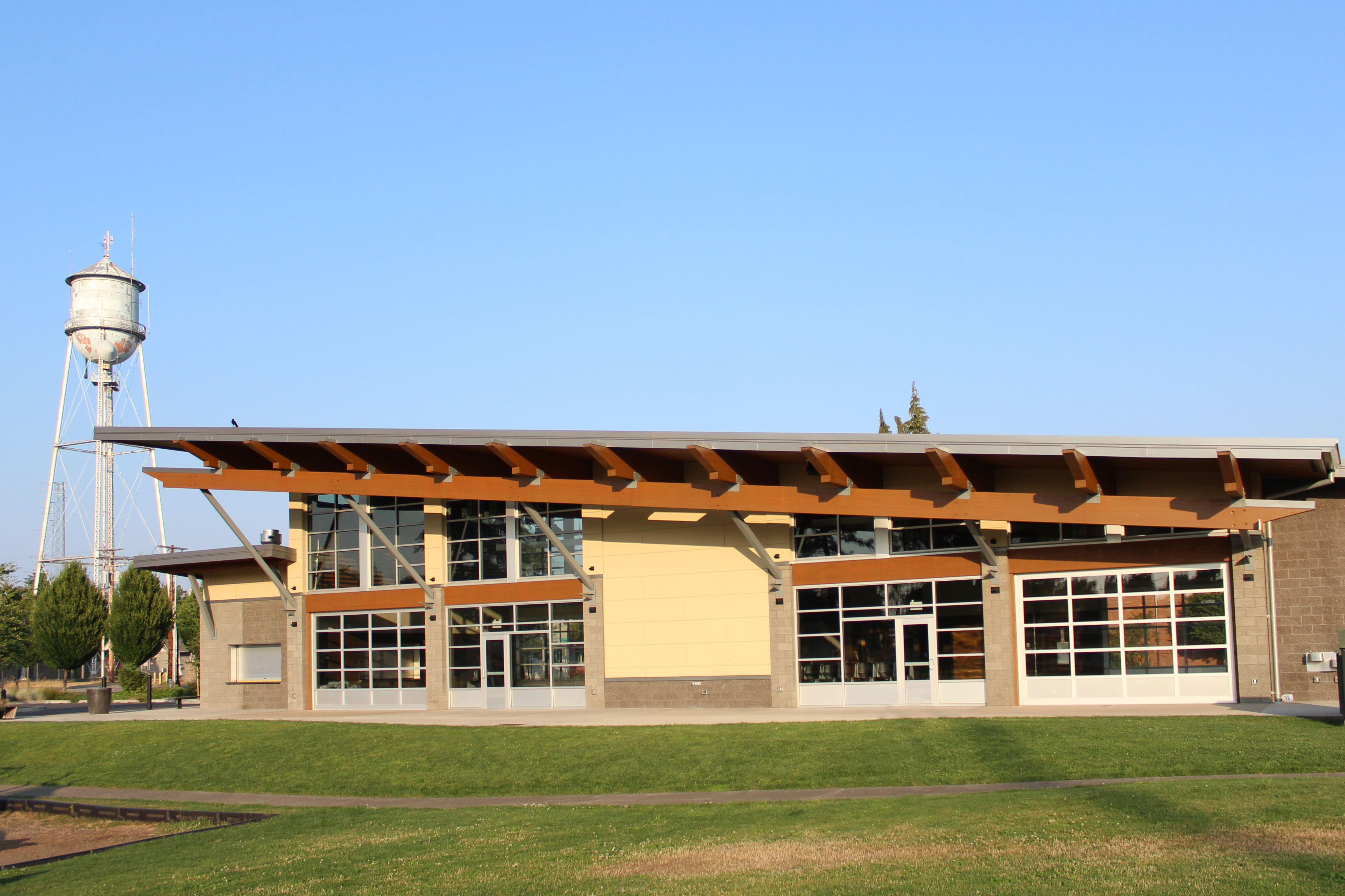 Yelm Community Center in Yelm, Washington, with the city's water tower in the background.